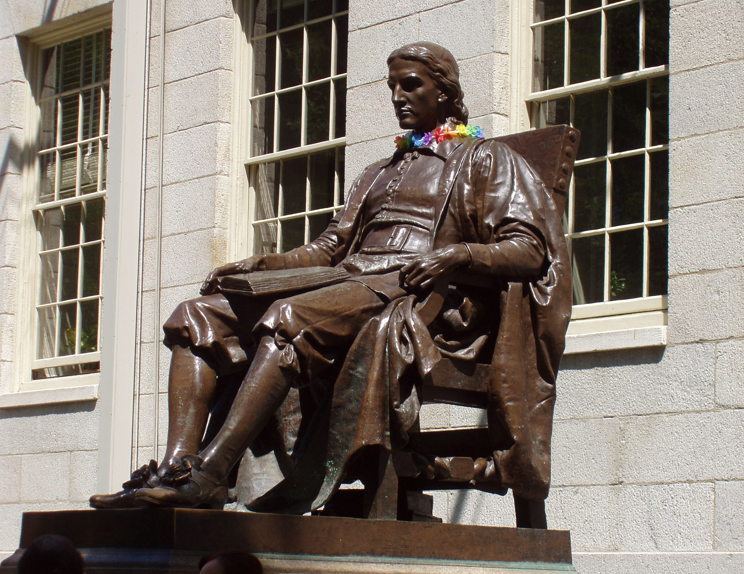 Statue in the college yard of Harvard University, Cambridge, Massachusetts. Known as the "Statue of the three lies" because (1) Harvard was founded in 1636, not 1638 (2) Harvard was an early benefactor, not the founder and (3) the statue is not of Harvard, but of a 19th-century Harvard student.